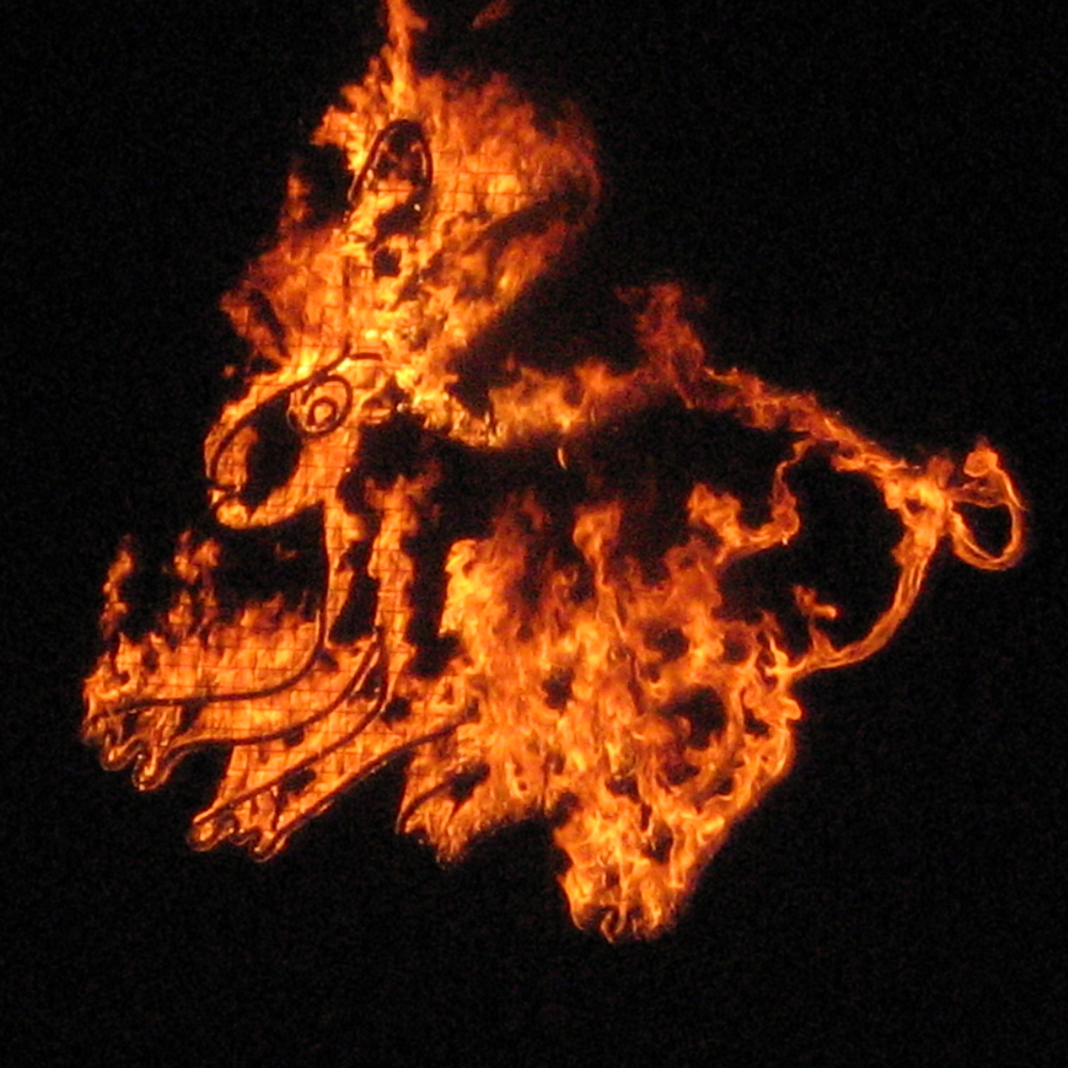 Original caption: I love this Fire Hare: looked so cool at the top end of the display. Imbolc is an old celtic fire festival that uses music and fire to drive away the cold and frost and welcomes in the warming sun and the Spring. Marsden community volunteers and the Kikless countryside volunteers service set the festival up around 1993. Samba bands, Fox dancers, fire jugglers, community drummers and a lot of fireworks - a real spectacle.